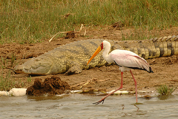 Uganda. Yellow-billed Stork Mycteria ibis and Nile Crocodile Crocodylus niloticus Kazinga Channel Dec 2005